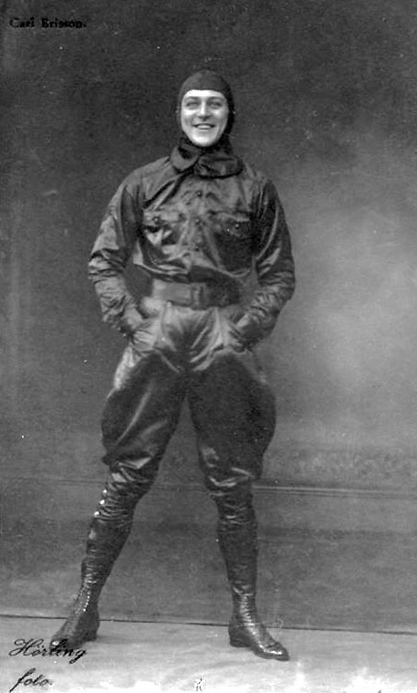 Carl Brisson